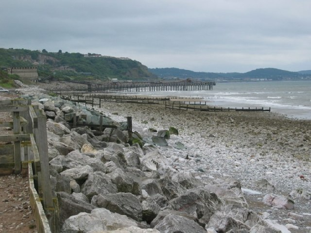 Llanddulas beach and quarry jetties. Coastal management measures and limestone quarry jetties looking west with Colwyn Bay in the background.